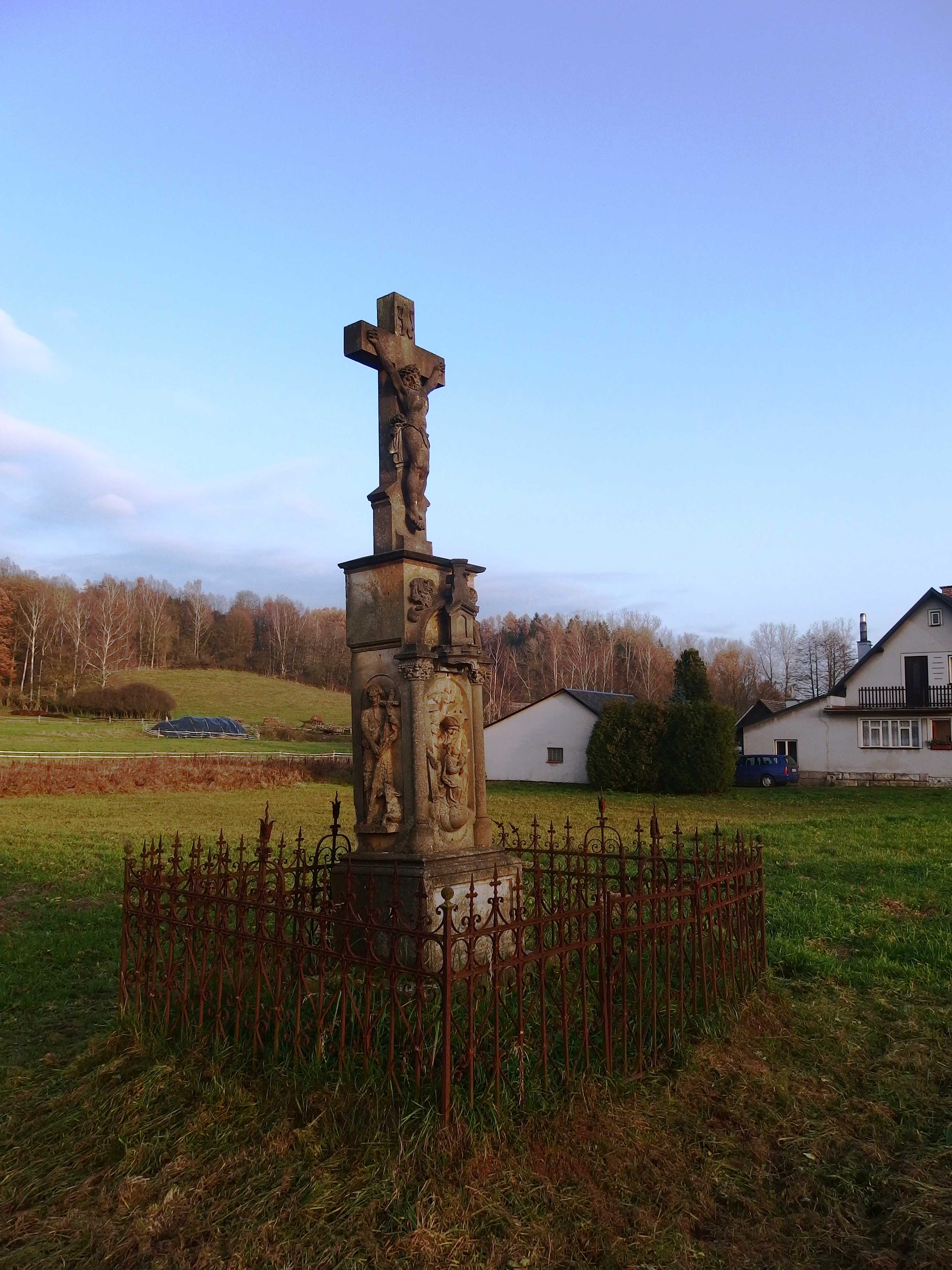 Staré Buky, Trutnov District, Czech Republic.